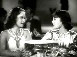 Cropped screenshot from the film Dramatic School